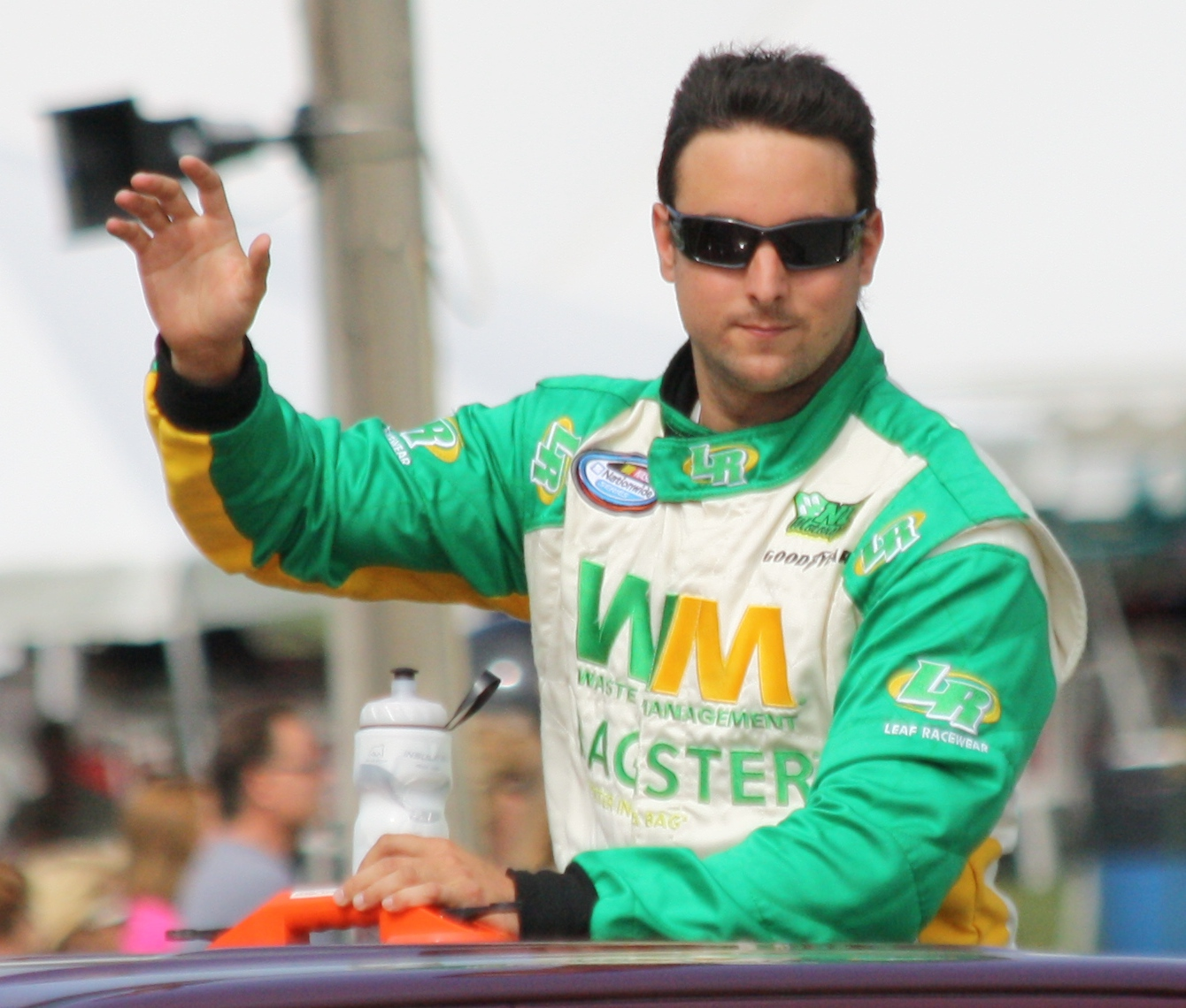 NASCAR driver Andrew Ranger at the 2013 Johnsonville Sausage 200 Nationwide race at Road America.